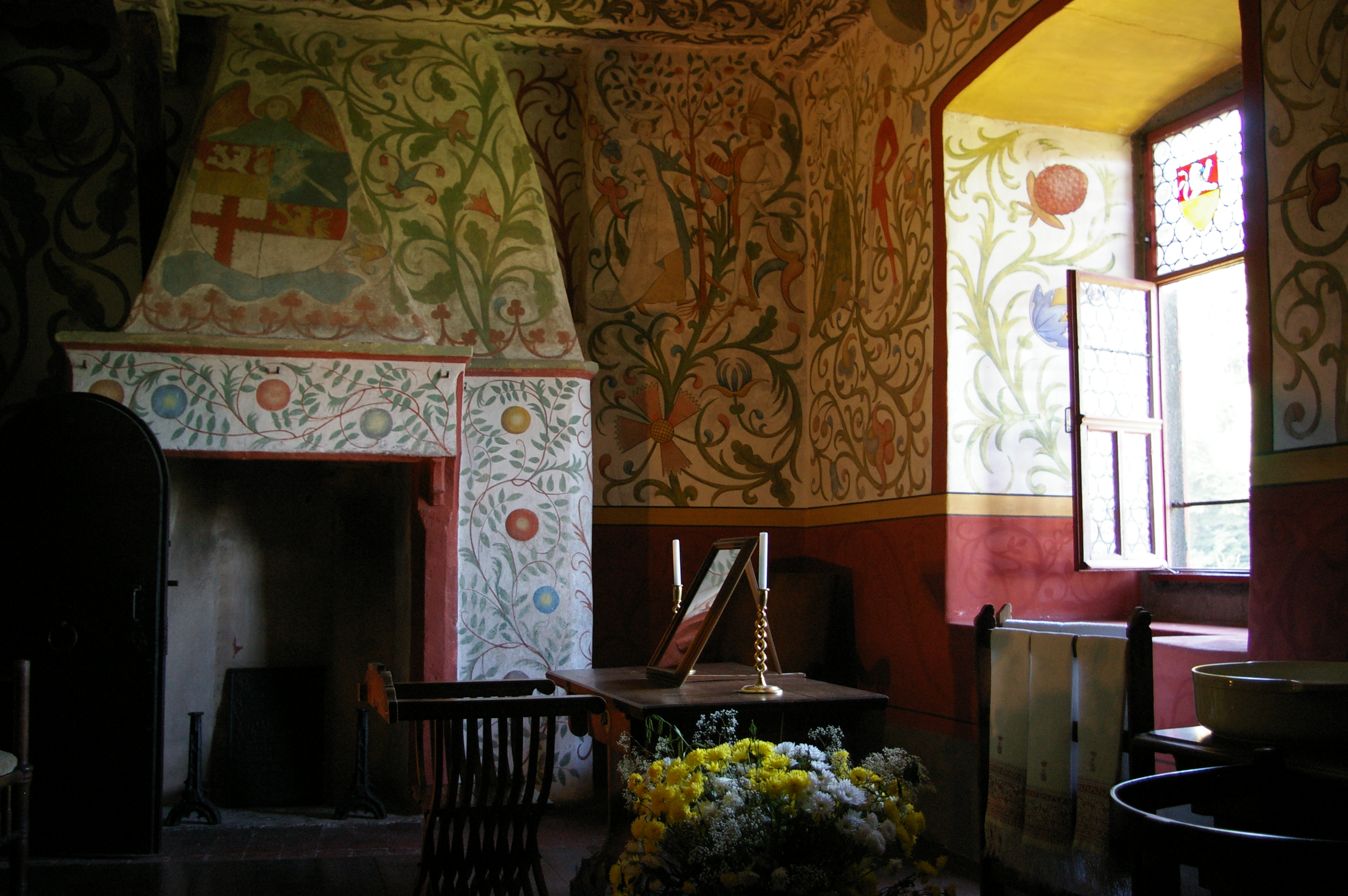 Chamber on Castle Eltz